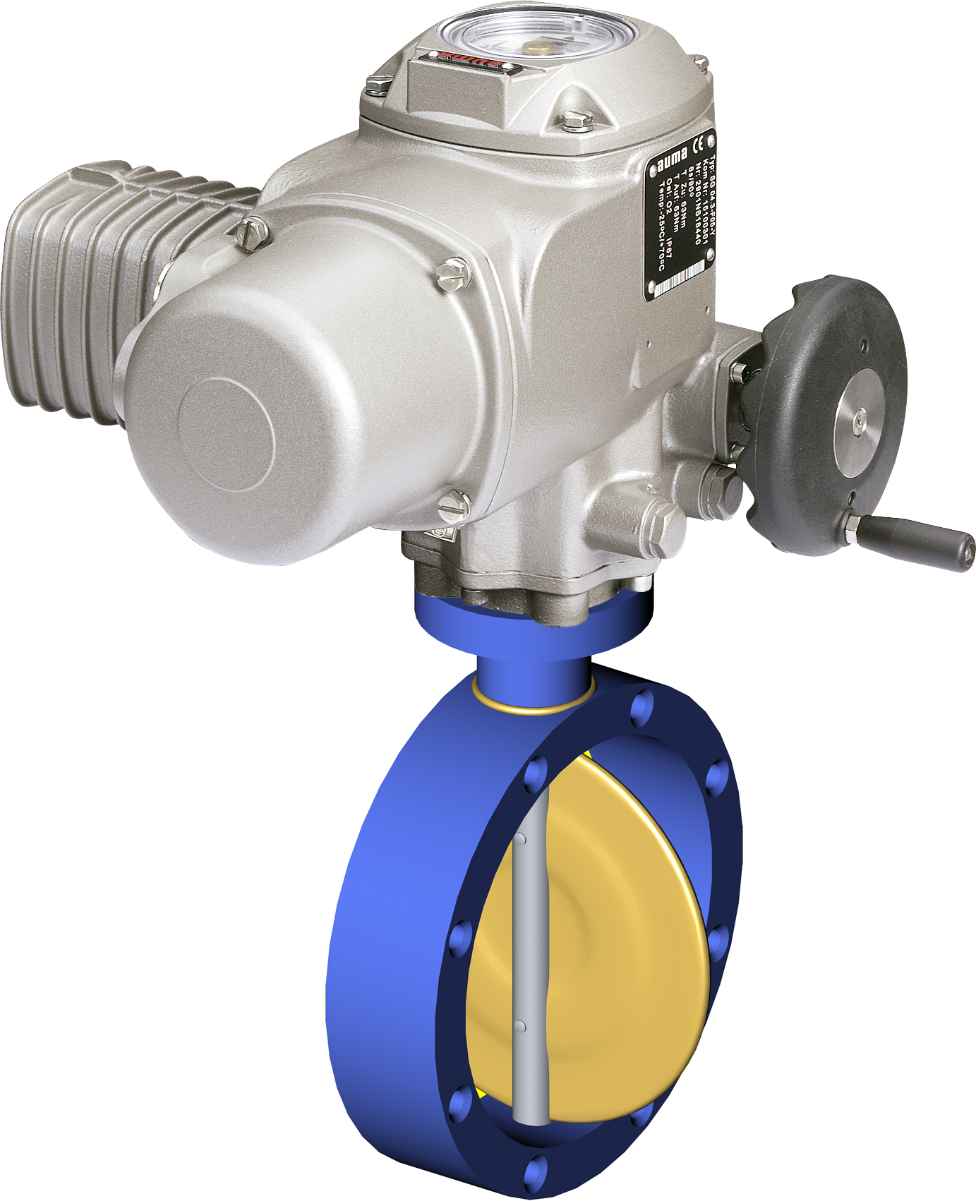 Electric part-turn actuator on a butterfly valve.